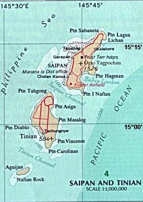 Map of the islands of Saipan and Tinian in the Northern Mariana Islands along the Marianas Trench (east of China and the Philippines).